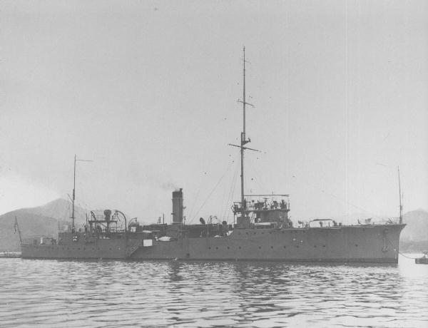 IJN gunboat SAGA at Sasebo Naval Base.